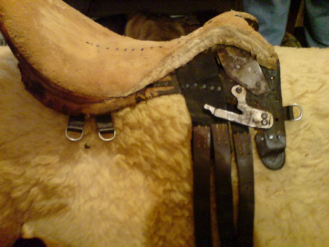 Saddle stripped down prior to being re-seated